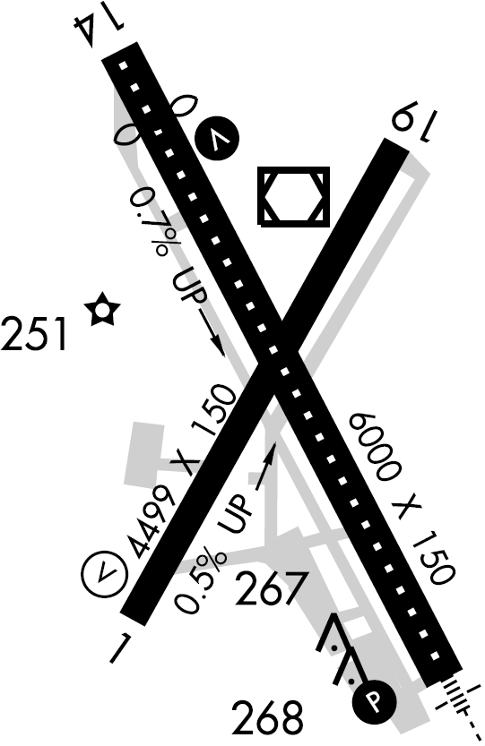 FAA diagram for Arcata-Eureka Airport (FAA: ACV, ICAO: KACV) in Arcata, California, United States.